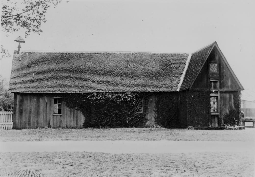 First St. Marks Church of England in Warwick, circa 1900